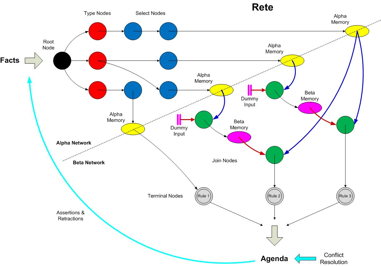 Illustrates the alpha and beta networks and basic node types contained in a Rete.